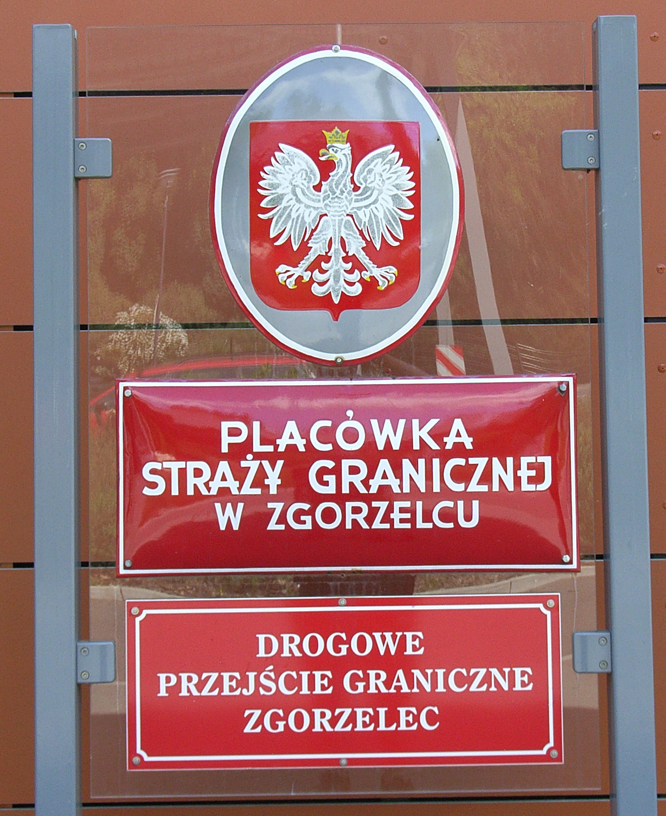 Border signboard in Zgorzelec